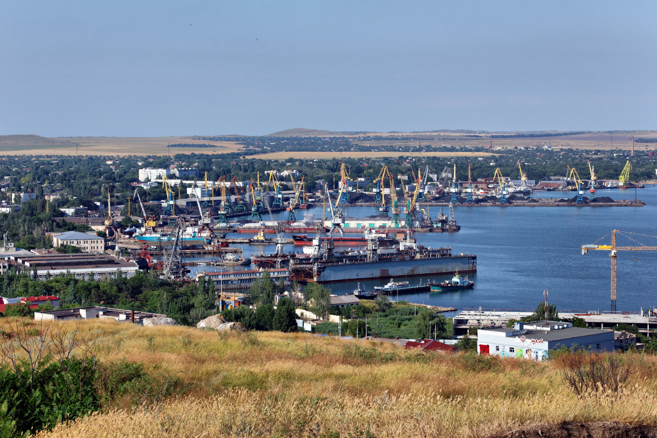 Kerch. Port